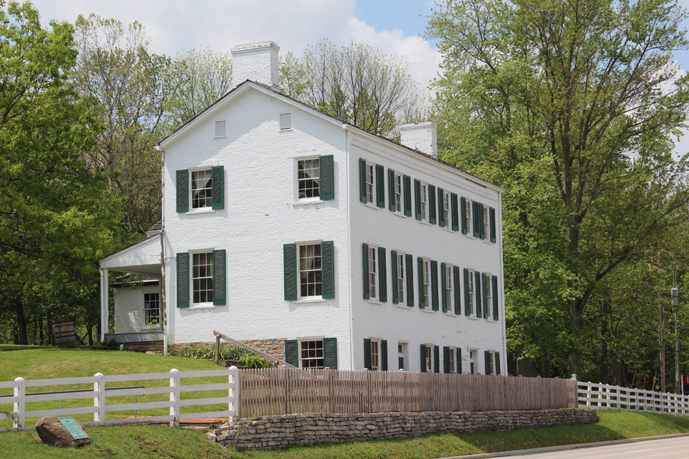 Huddleston Farmhouse and National Road Interpretive Center in Cambridge City